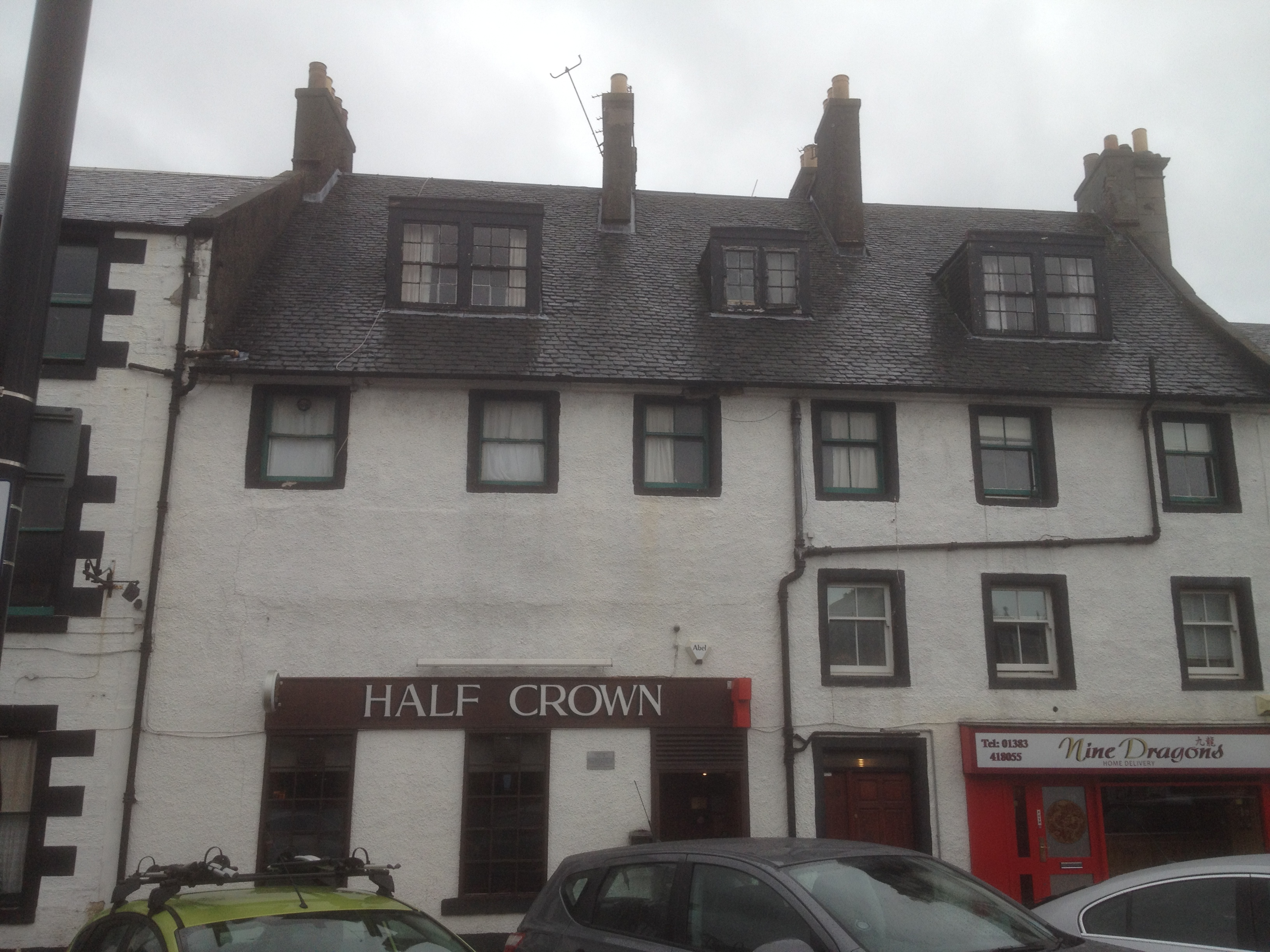 House in the main square of Inverkeithing, Fife, Scotland where Samuel Greig lived in his youth